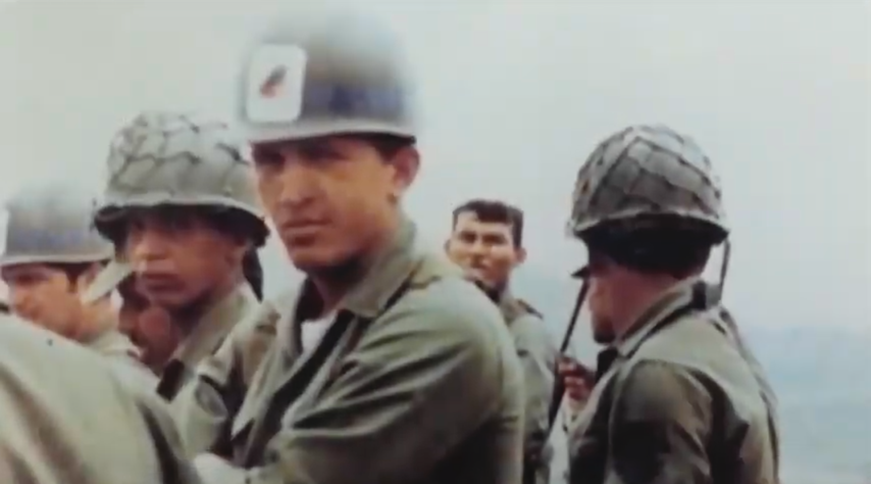 Hugo Chávez during his time in the Venezuelan Army.